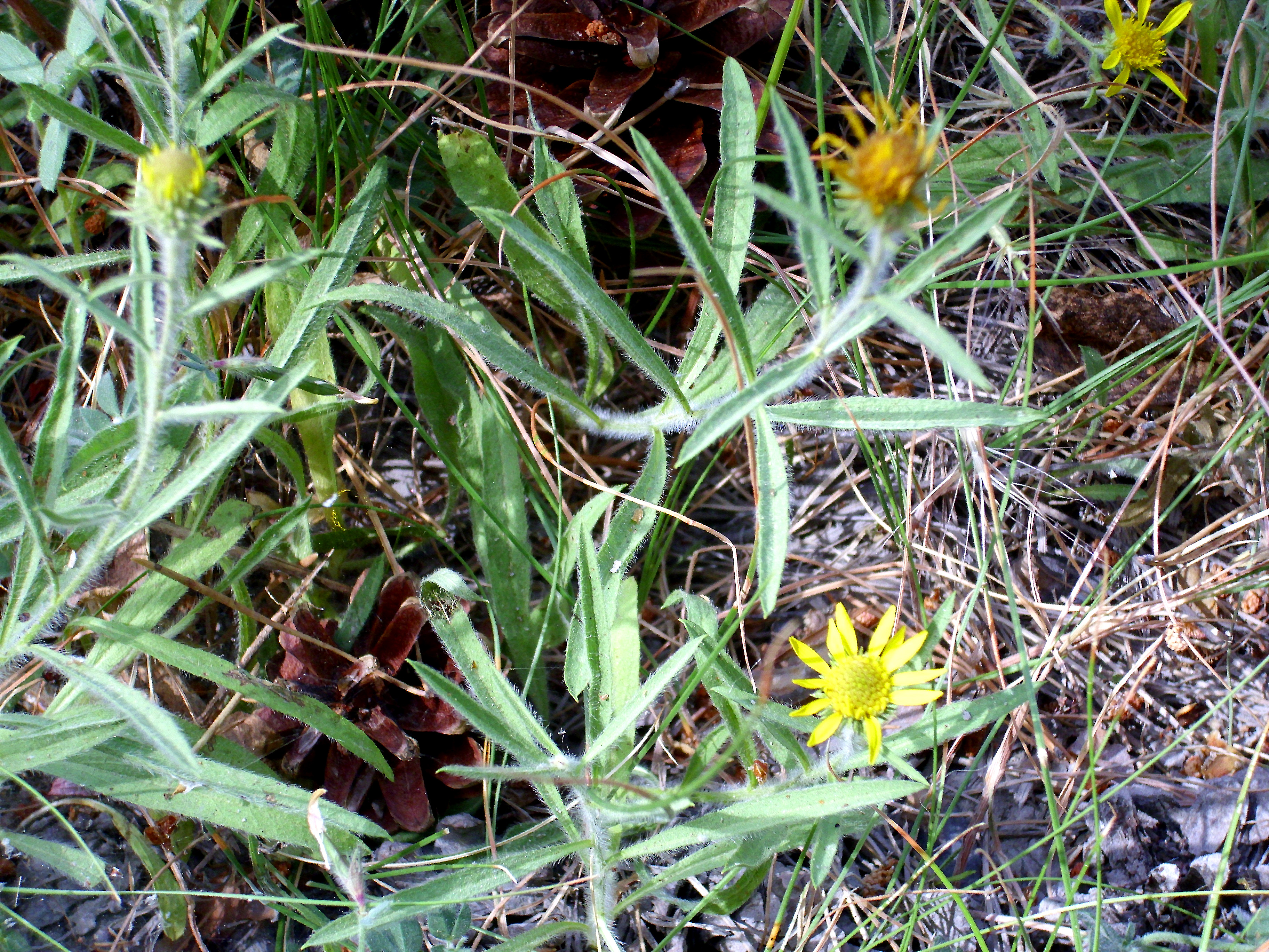 Inula montana, habit Sierra Nevada, Spain